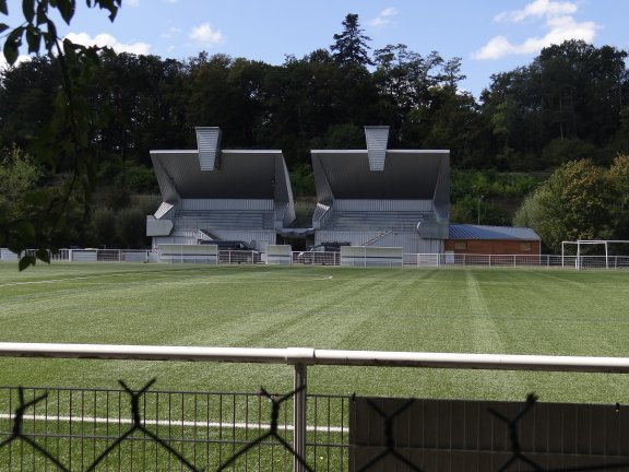 Stade de la Vallée